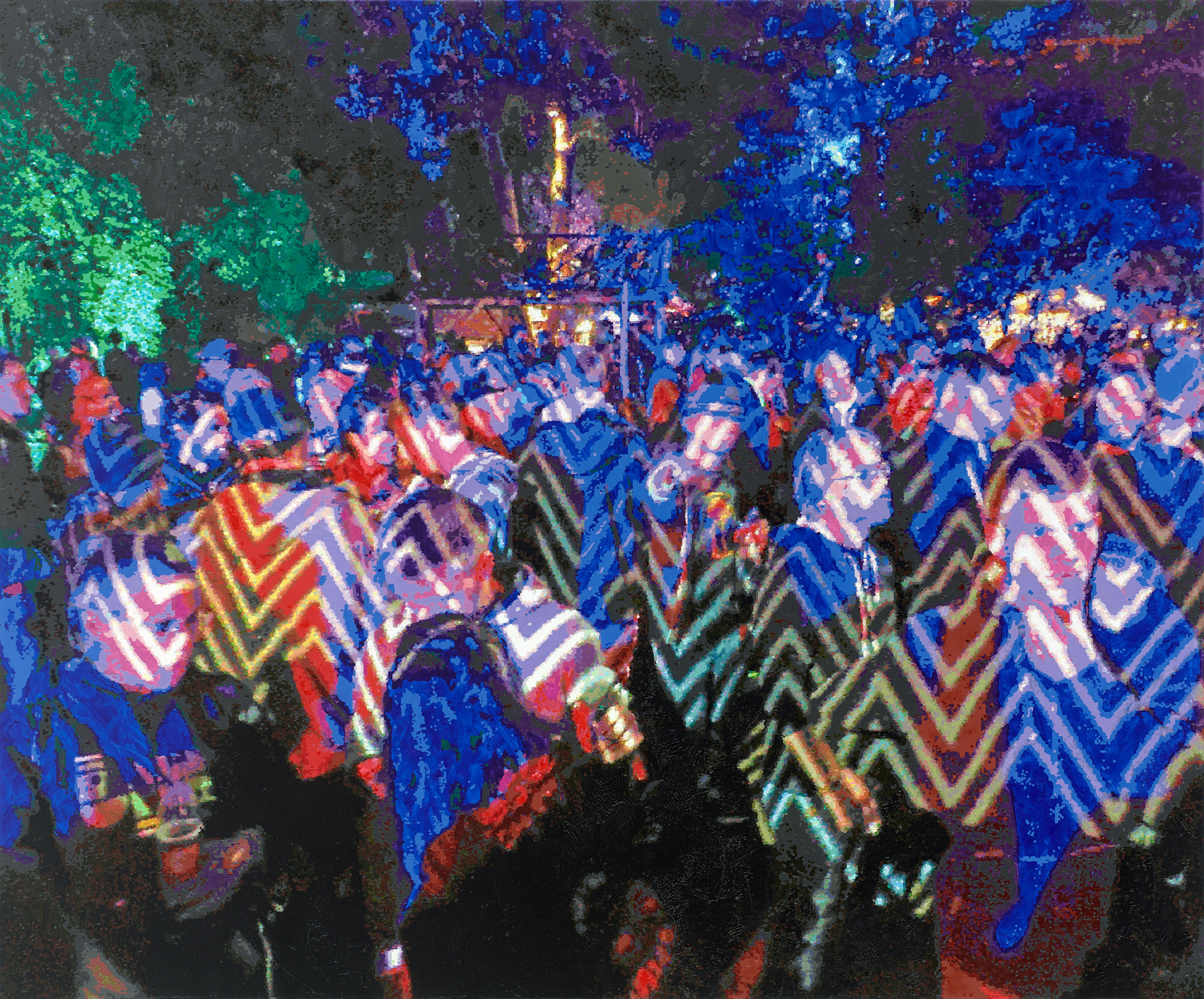 Römer + Römer „Party Sträflinge“, 2014, Oil on canvas, 200 x 240 cm